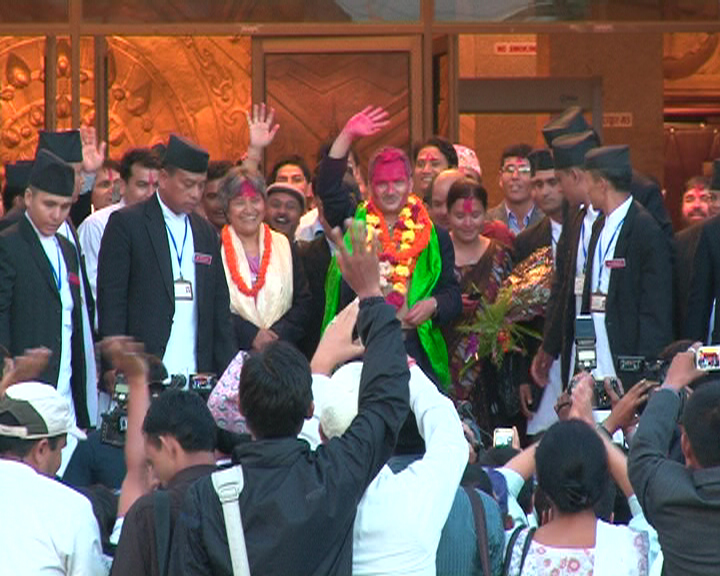 Mr. Baburam bhattarai the 35th Prime Minister of Nepal.